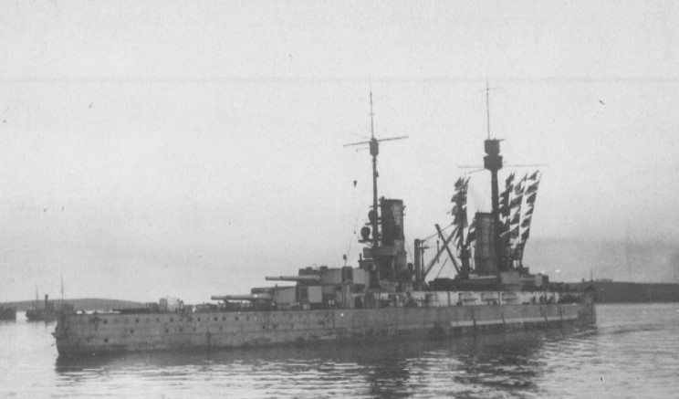 The German battleship SMS Kaiser.